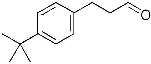 chemical structure of bourgeonal